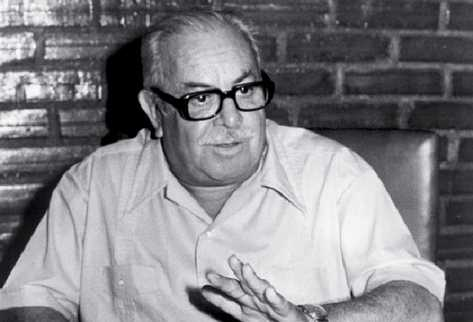 Dramaturgo, abogado,ensayista, escritor, historiador y político guatemalteco. Considerado como el padre del teatro guatemalteco.